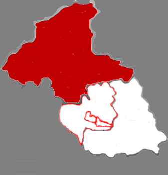 Location of Yu county in Yangquan City, China